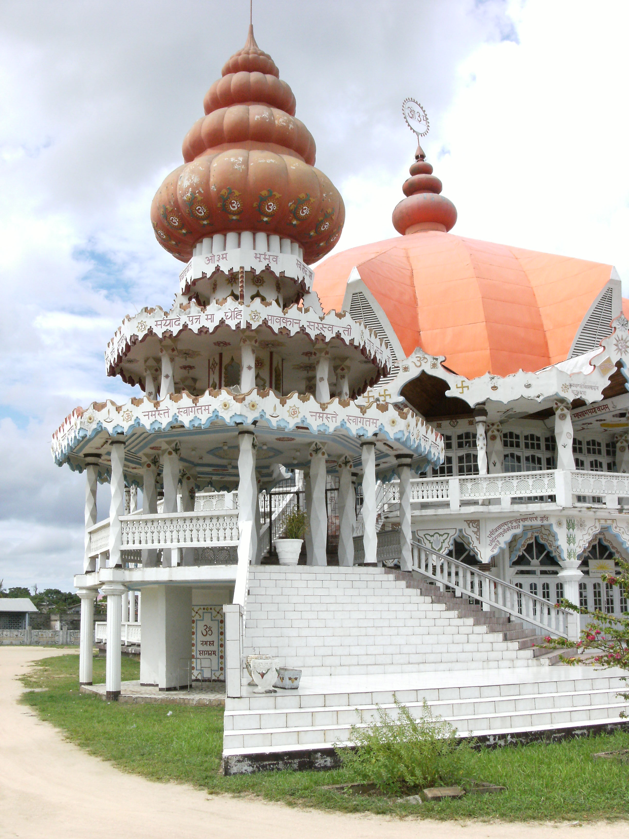 The Hindu Arya Dewaker Temple in Paramaribo, Suriname